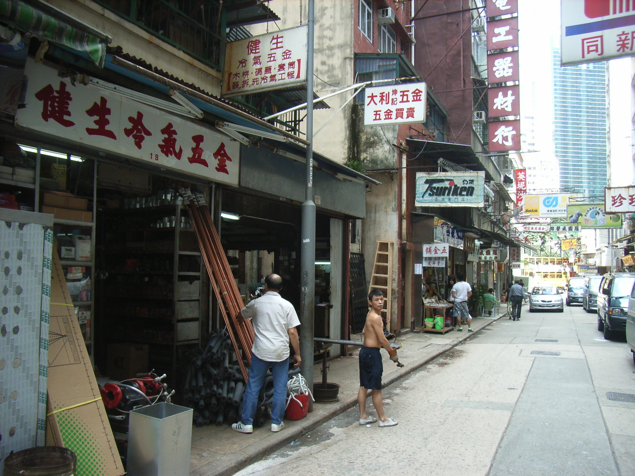 汕頭街, Swatow Street, 灣仔舊區街道 Wanchai old streets, Hong Kong. (A1 Wong East).